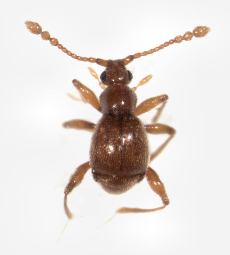 adult Gerallus punctipennis